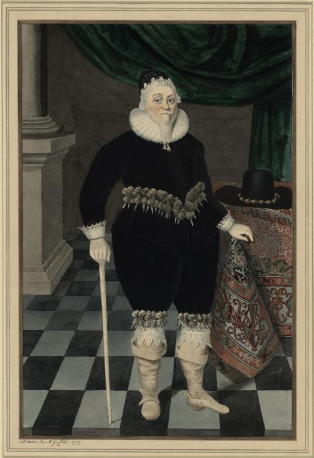 A portrait from the Welsh Portrait Collection at the National Library of Wales. Depicted person: Roger Mostyn – Welsh politician